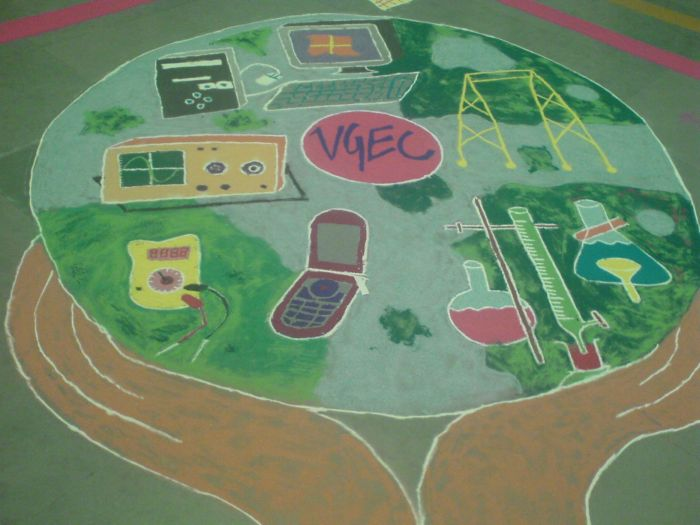 Rangoli made in Techno Aspire '07 Tech Fest